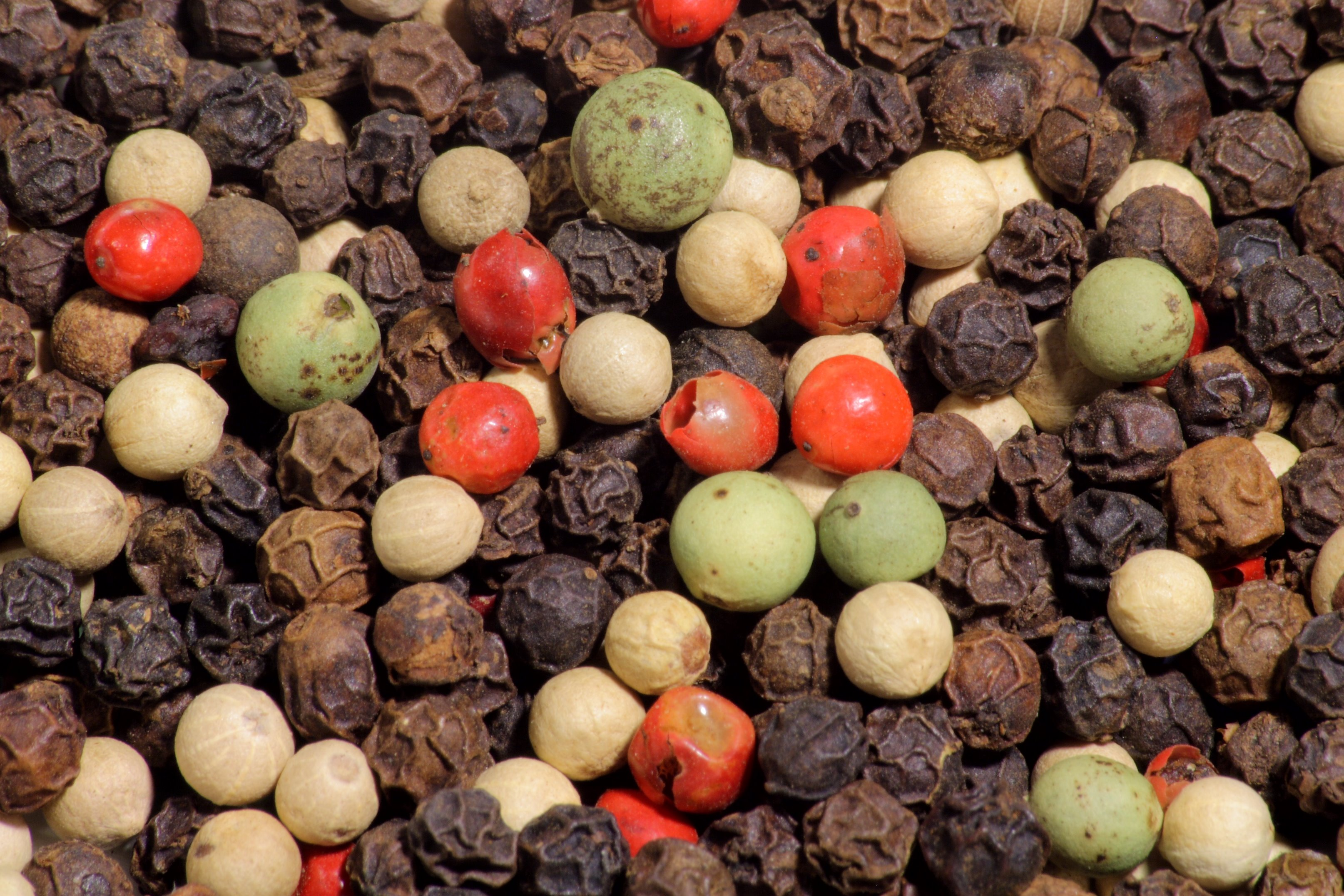 A mixture of black peppercorns from the Malabar Coast, white Muntok peppercorns from Bangka, China, green peppercorns from Brazil, and pink peppercorns (berries of the Baies rose plant, Schinus terebinthifolius) from Réunion (France). Packaged as "Savory 4 Pepper Blend" from Trader Joe's.